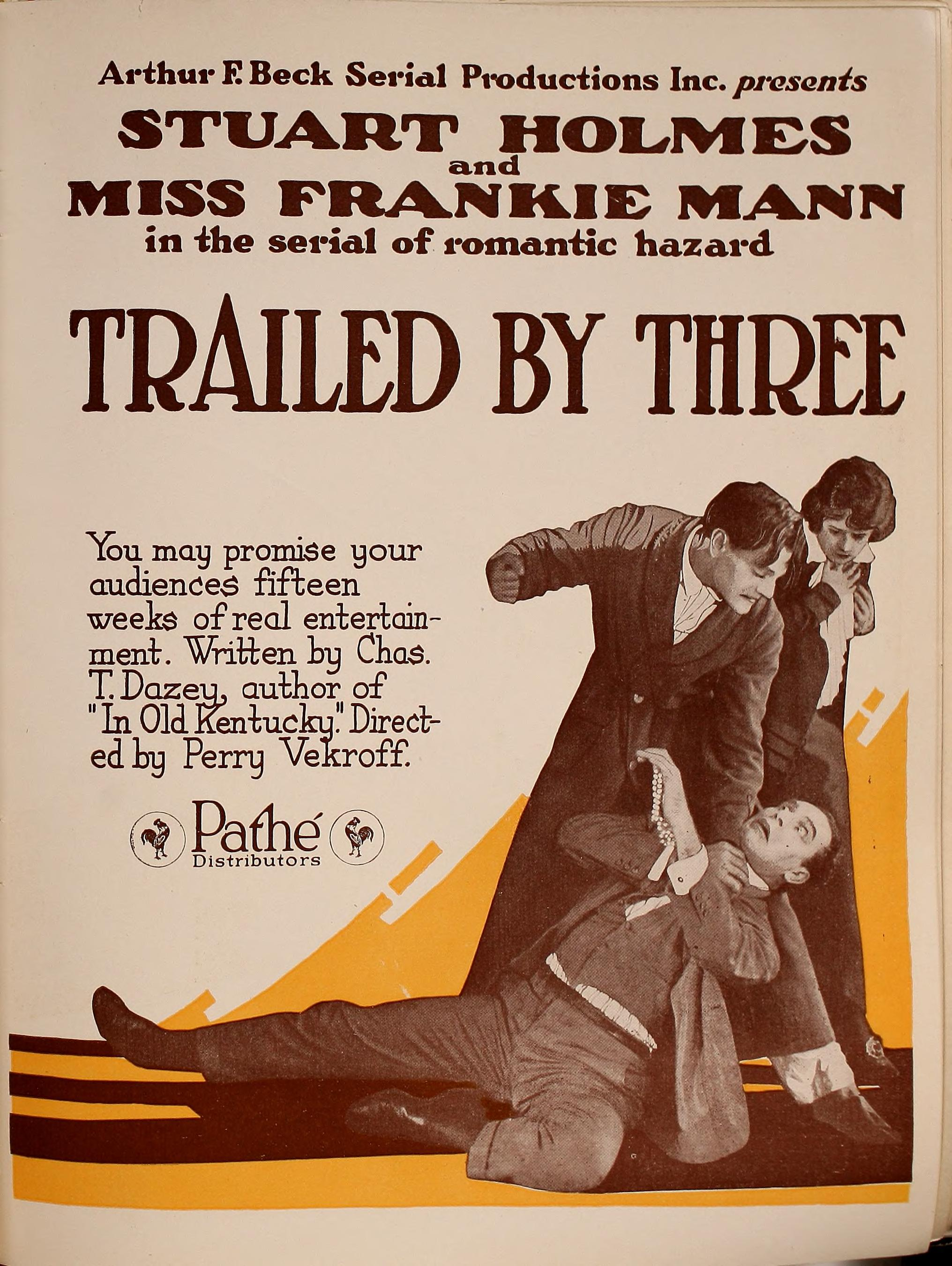 Advertisement for Trailed by Three in Motion Picture News, 1920.